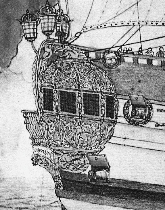 Pieter Bergman. Russian ship of the line Goto Predestinatsia. Fragment.